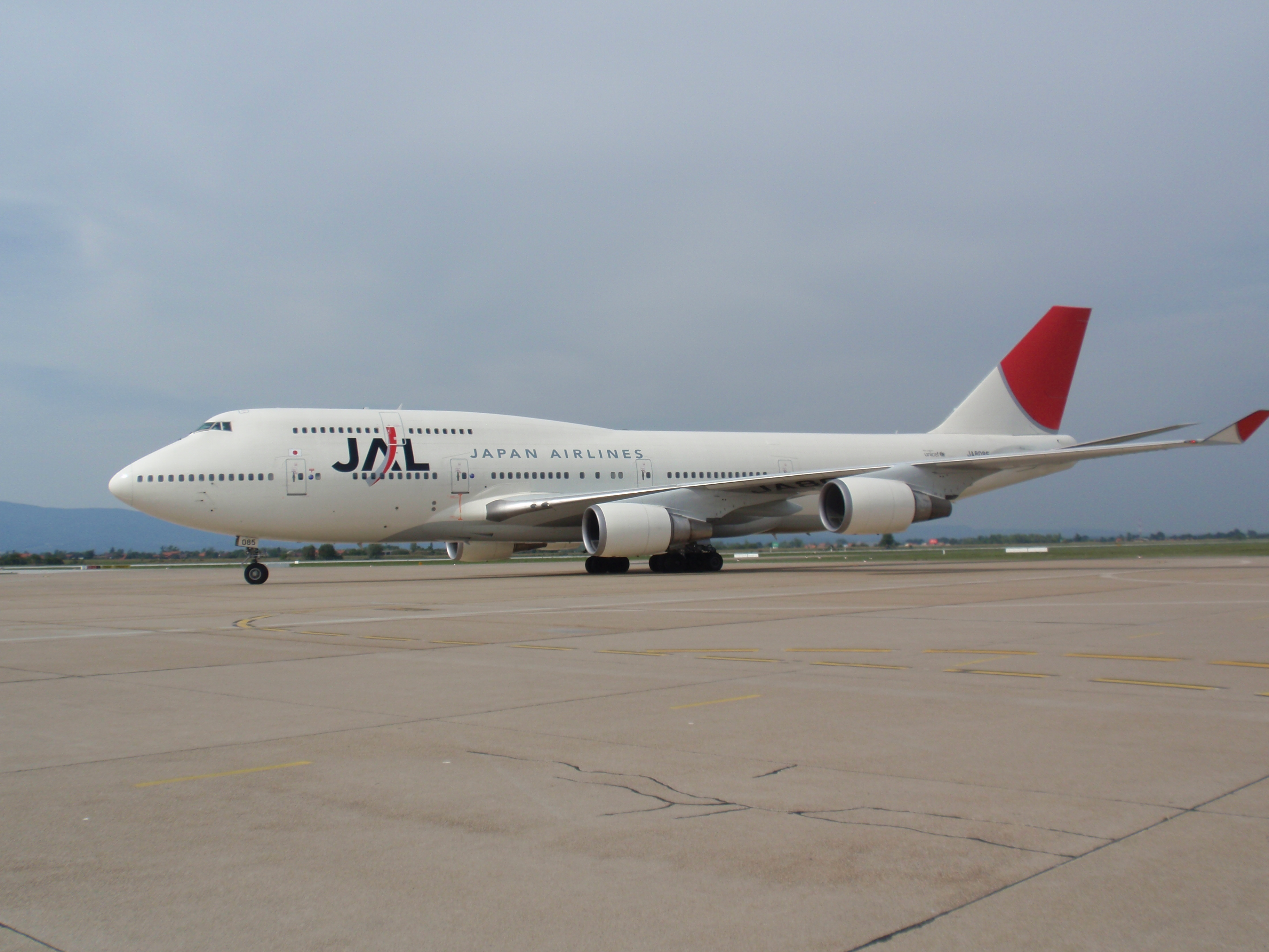 JALs 747-446 (JA8085) on Zagreb airport